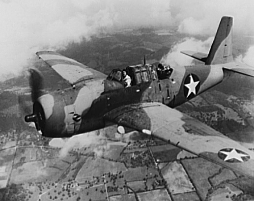 A Vultee A-31 Vengeance dive bomber in December 1942.